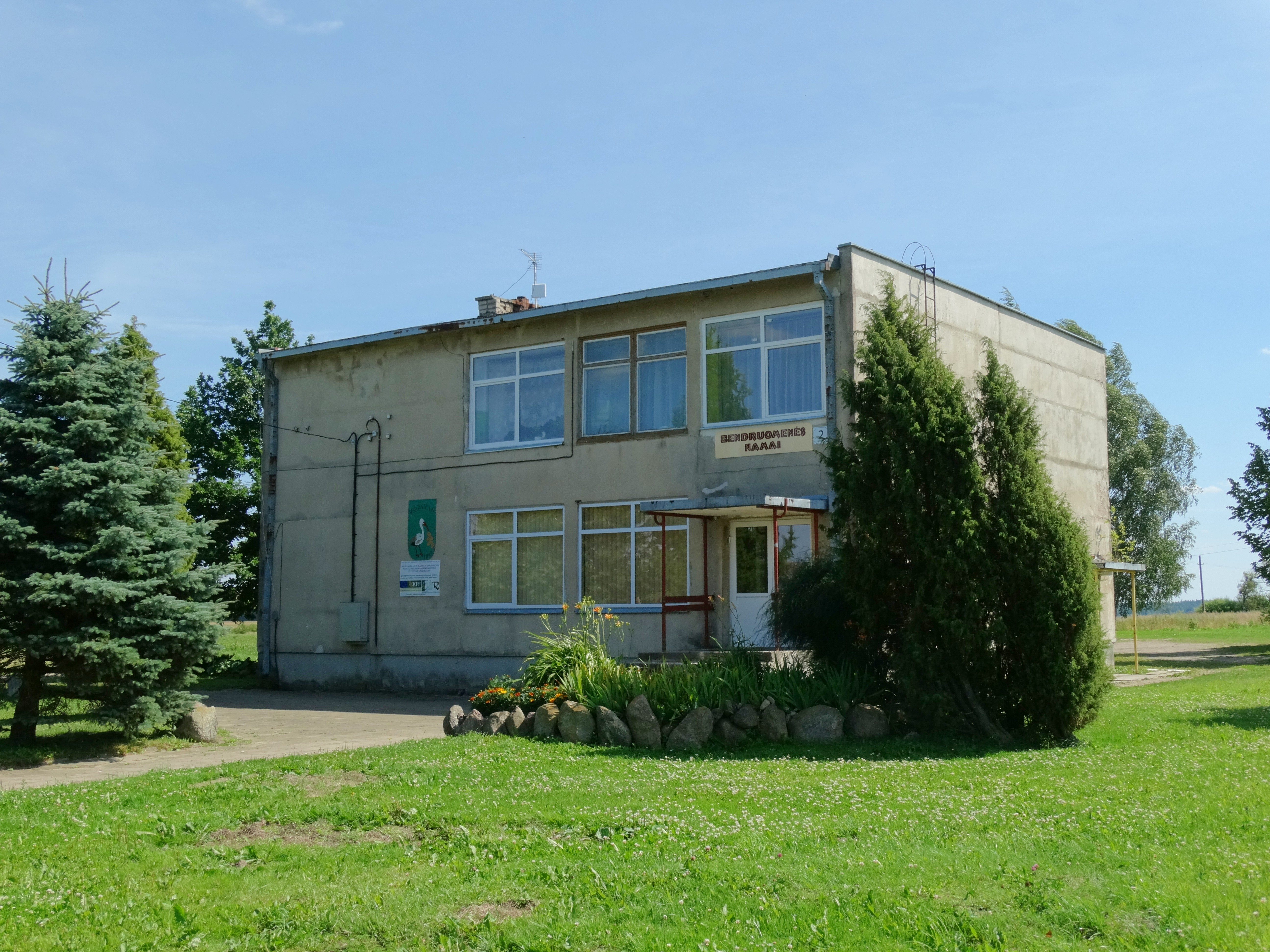 Miežaičiai, Radviliškis district, Lithuania